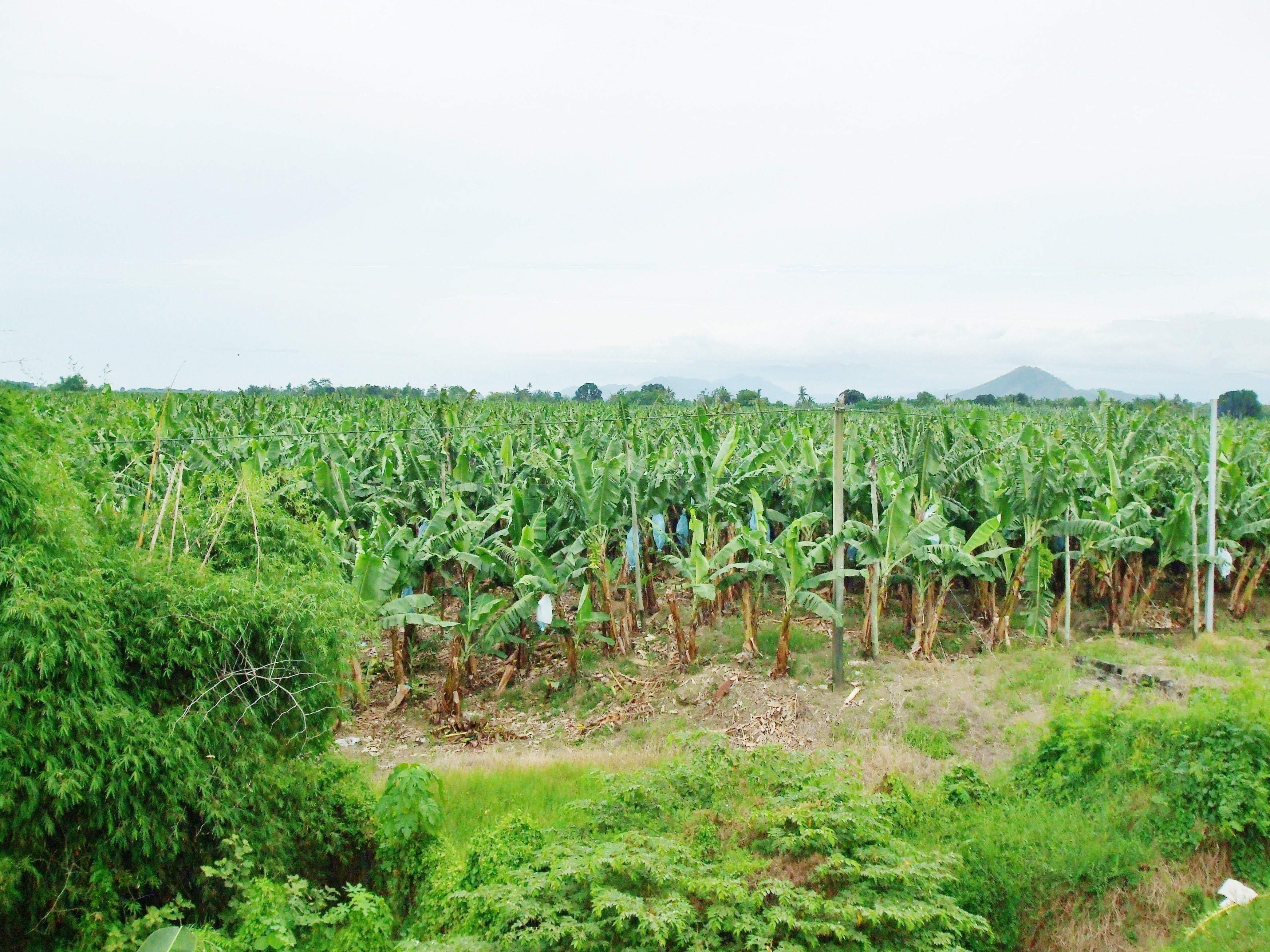 Along road to Kiblawan